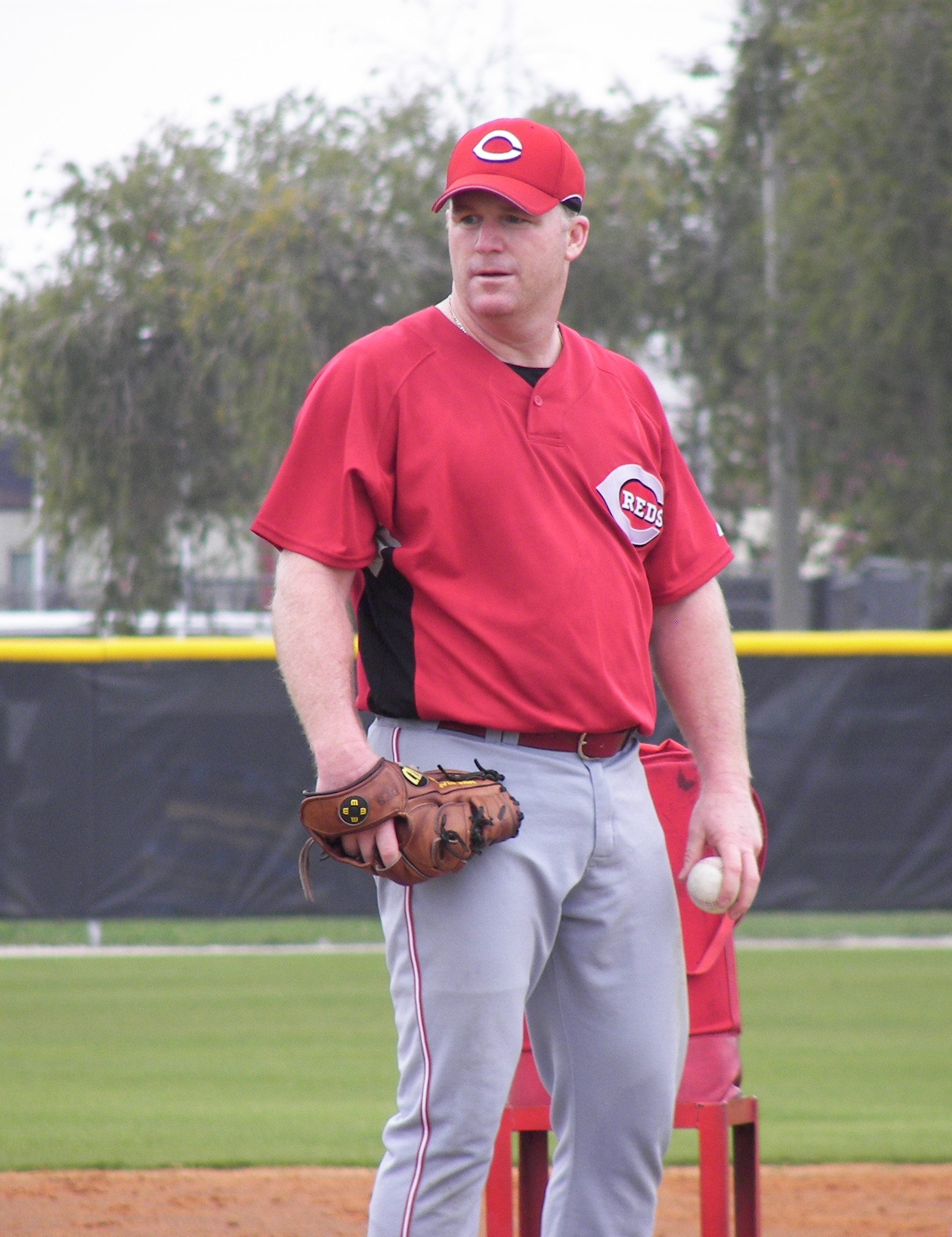 Cincinnati Reds pitcher Mike Stanton during a Spring Training workout outside Ed Smith Stadium in Sarasota, Florida.